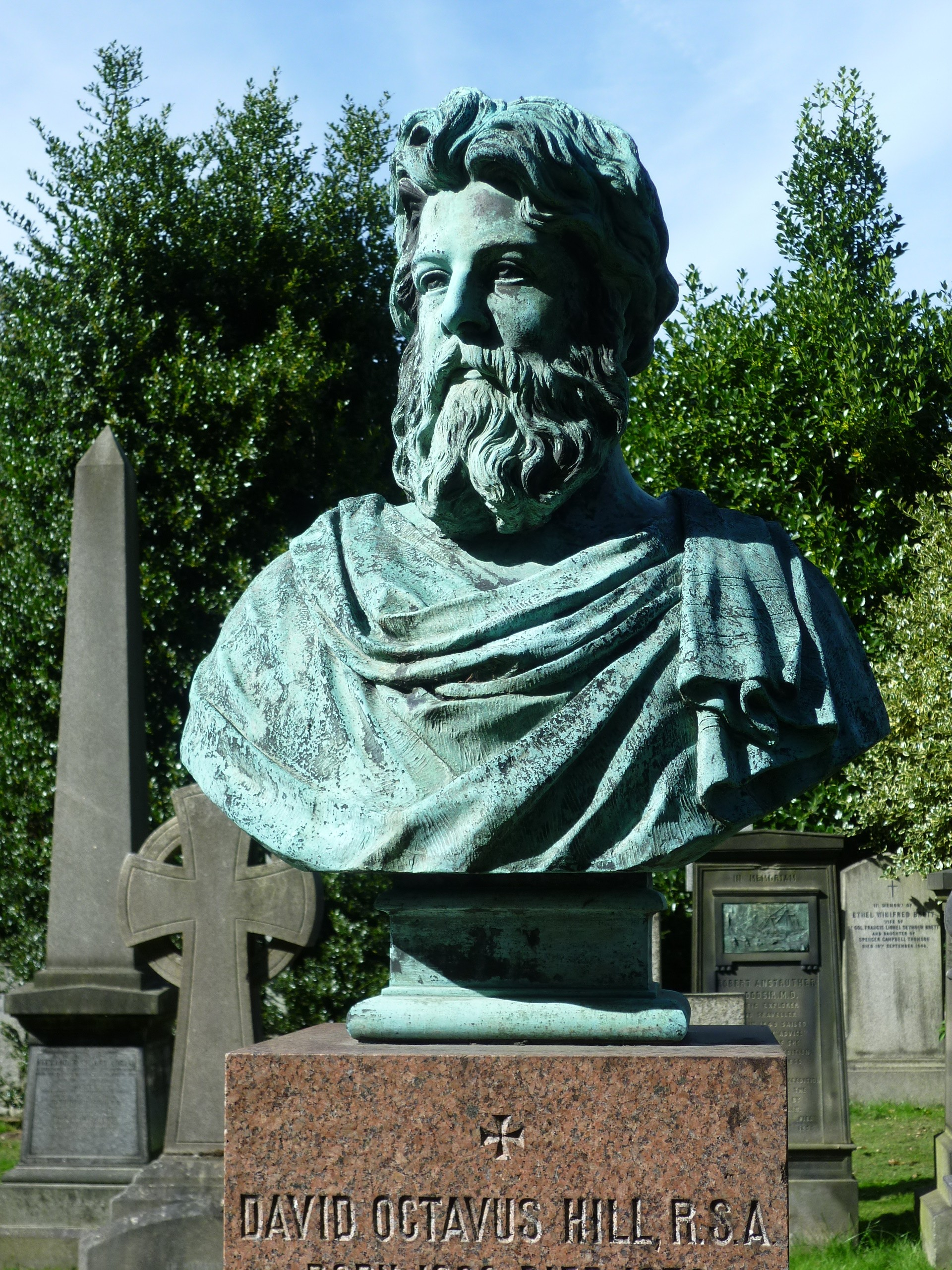 The bust was sculpted by Hill's second wife, Amelia Paton, who is buried alongside him.